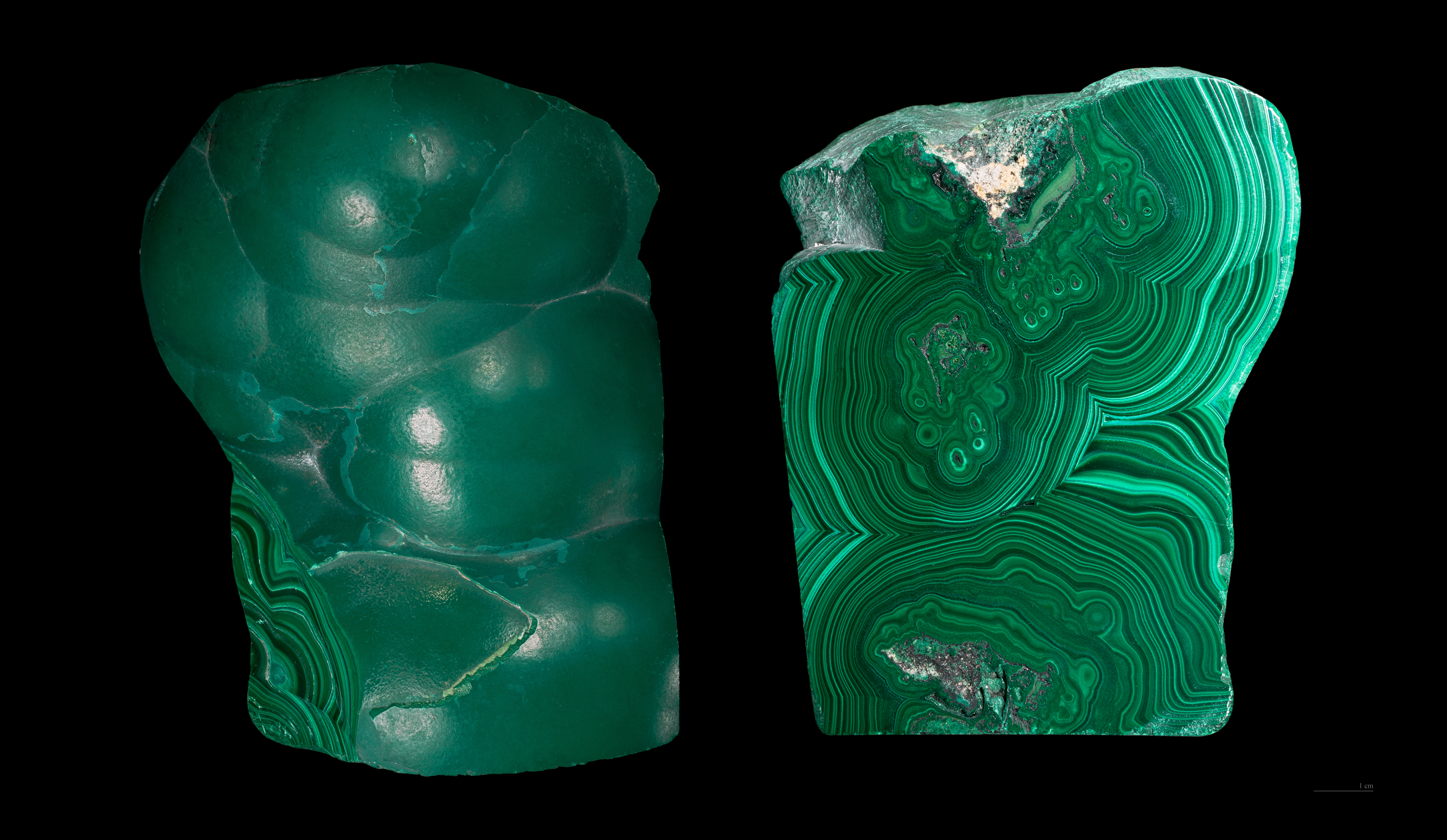 Malachite Locality: Katanga Copper Crescent, Katanga (Shaba), Democratic Republic of Congo (Zaïre)